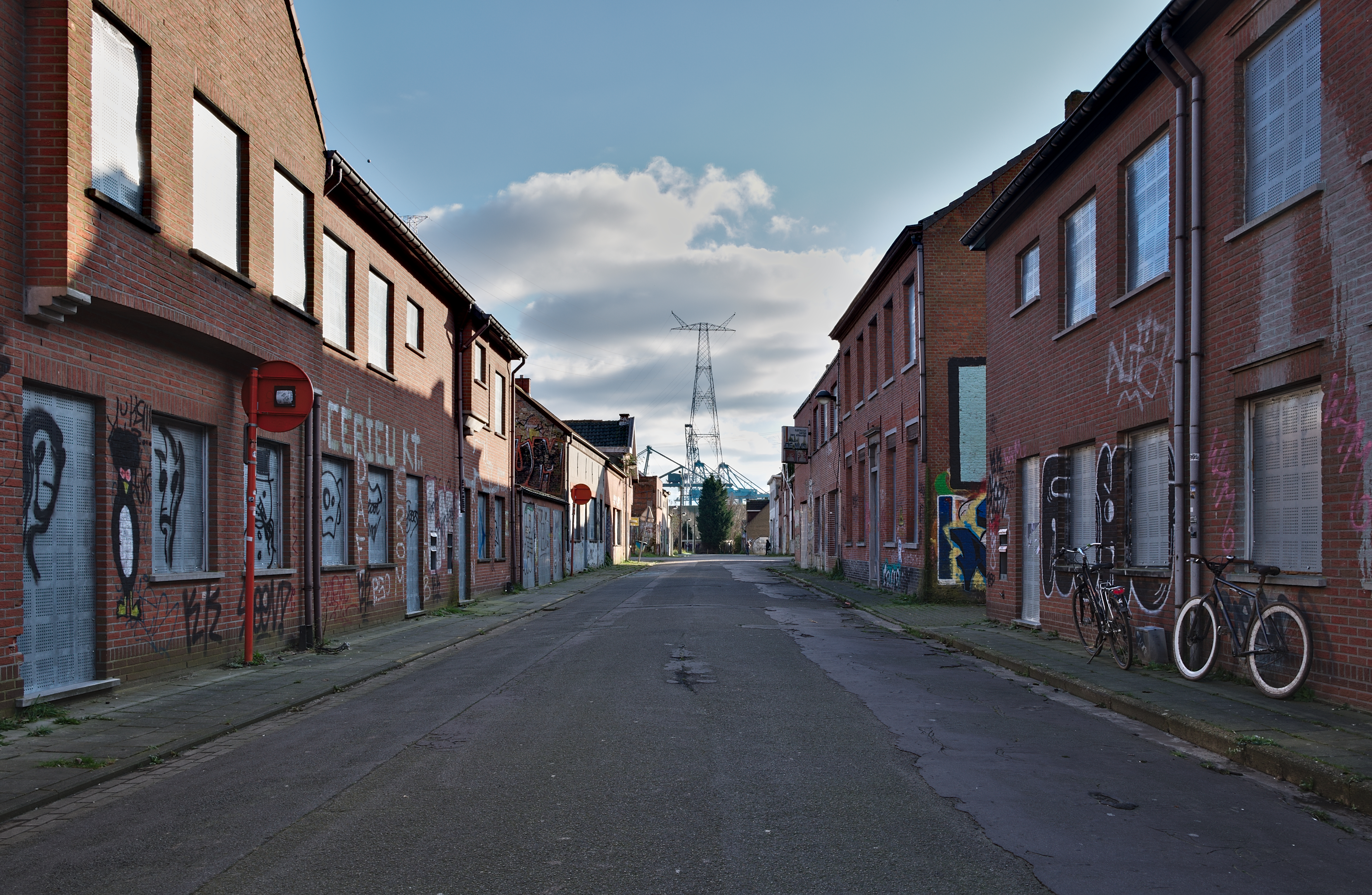 Vissersstraat, Doel, Belgium